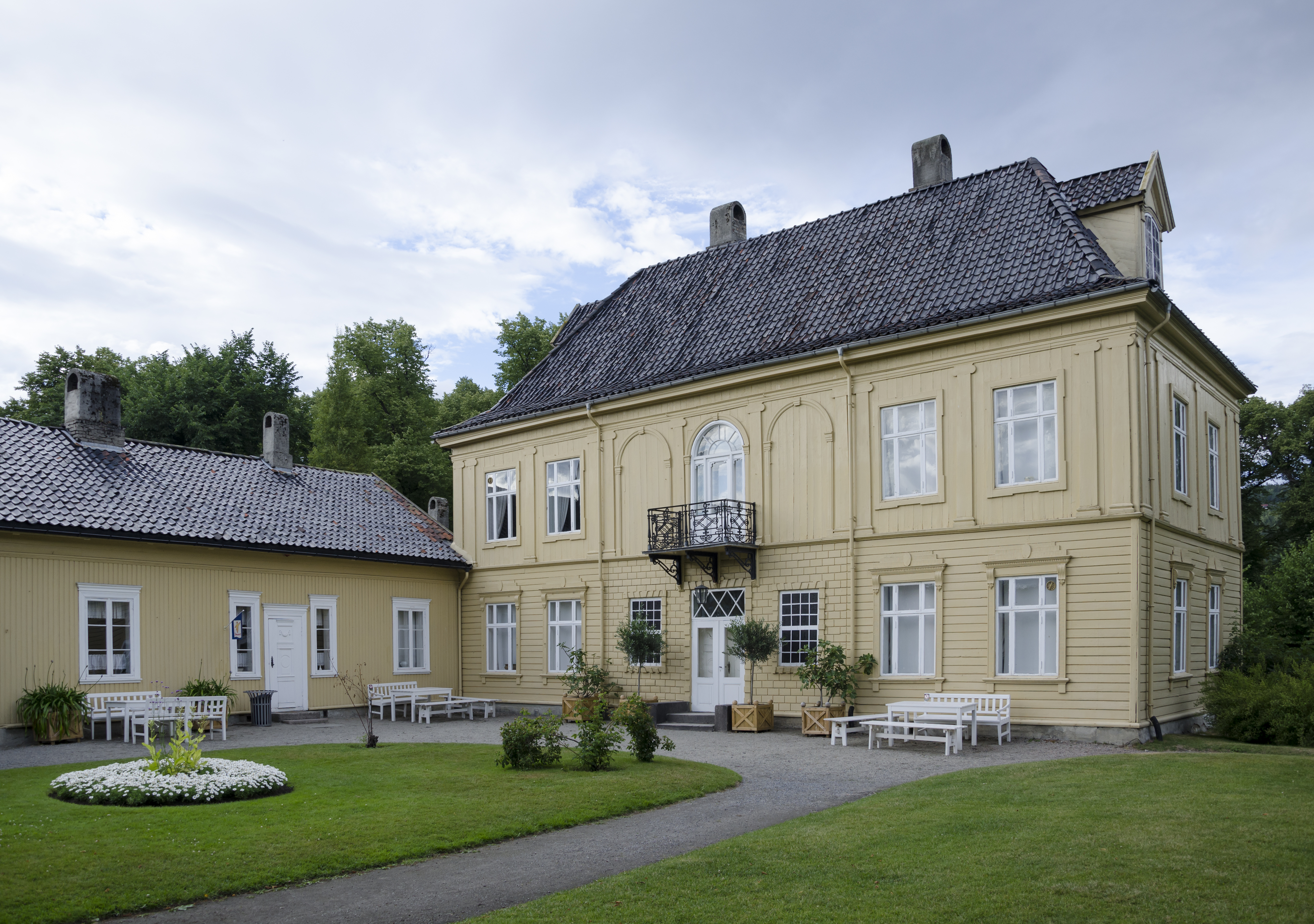 Gulskogen (eng. Yellow forest) Manor, bought by Peter Nicolai Arbo and Anne Cathrine Collett in 1793 and turned into a manorial estate in the following years. It was made a museum in 1963. The house, its contents and the park surrounding the estate are intact from the 1800s.